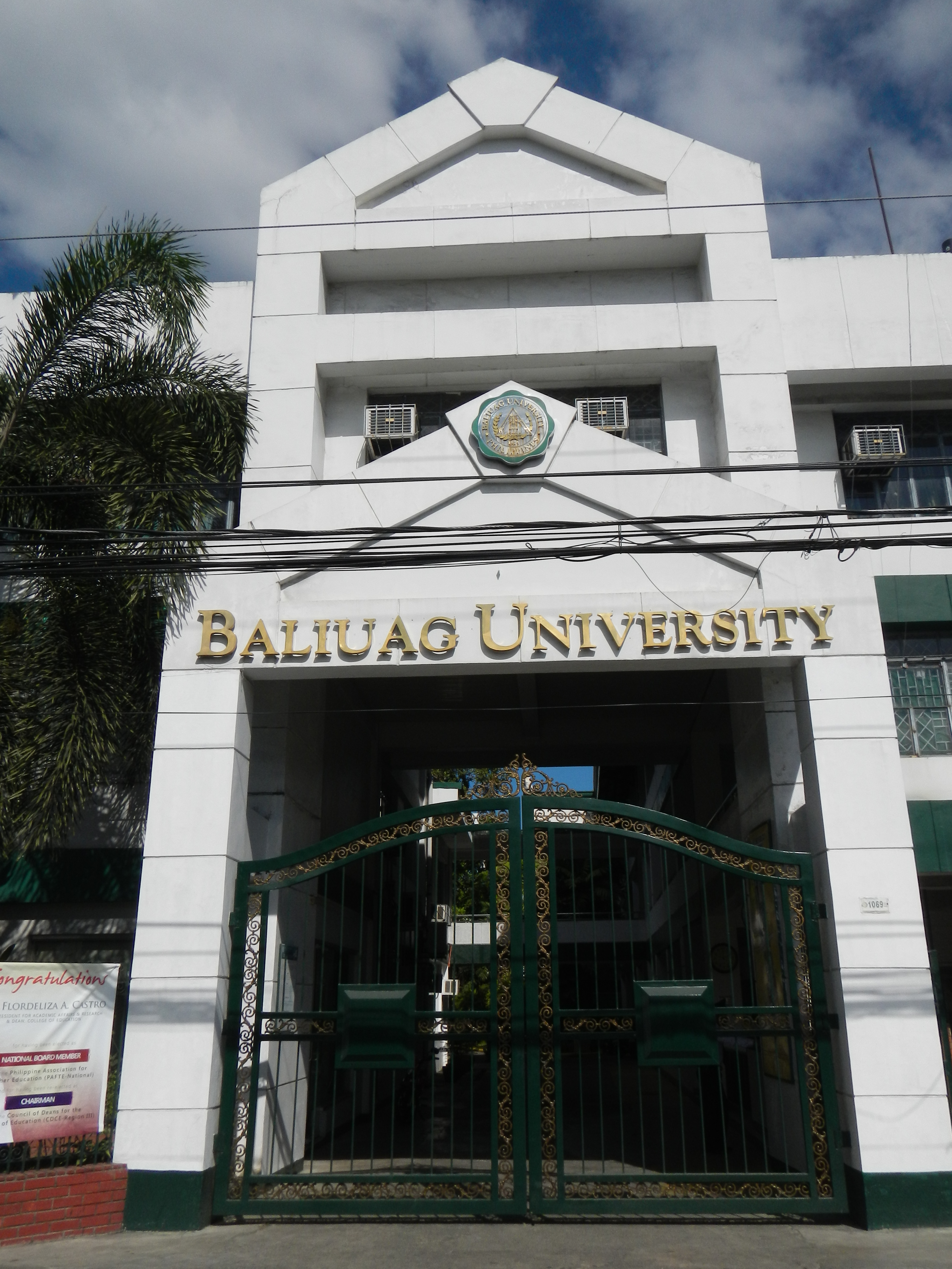 Upload Wizard photos of - the - a) Baliuag University [1], b) Manila Doctors' Hospital [2] (MDH) started operations in 1956 - 667 United Nations Avenue, Ermita, Manila, List of hospitals in Manila[3] Coordinates: 14°34'54"N 120°58'58 "E and c) Museum of Philippine Political History [4] 2nd floor and part of the - National Historical Commission of the Philippines.